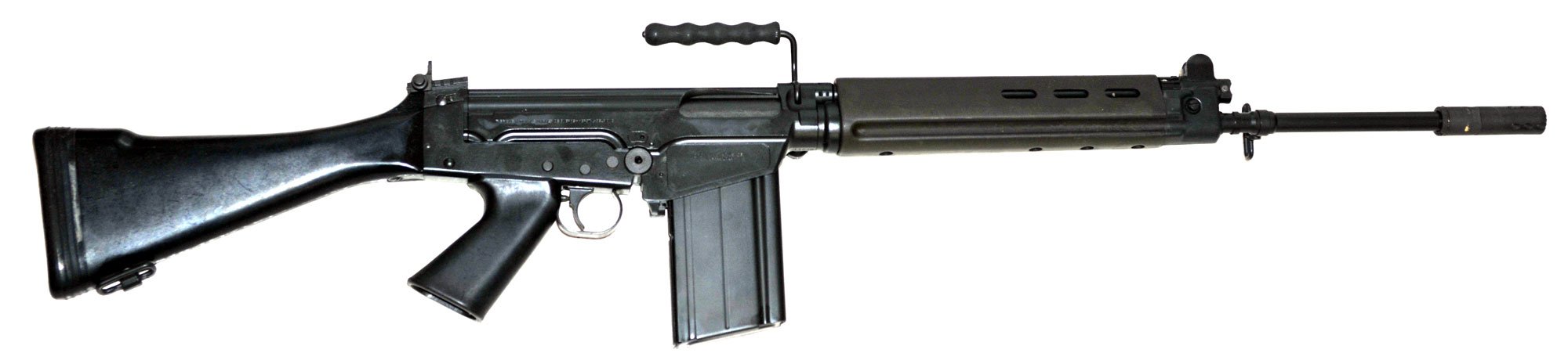 Belgian made fn fal